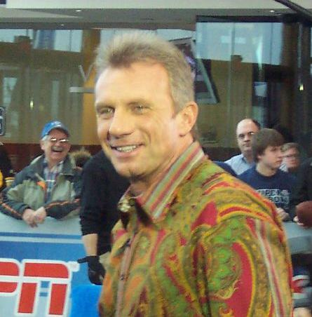 Joe Montana on the set of an ESPN broadcast.